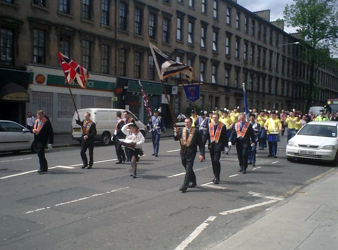 The Orange Order marching in Glasgow. Photo taken 1st June 2003 by User:Edward.